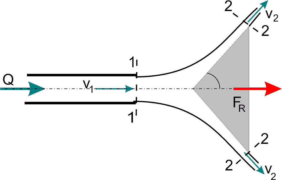 jet over a cone